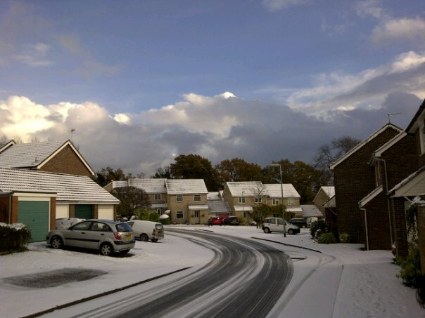 Abinger Way Eaton Norwich November 2010